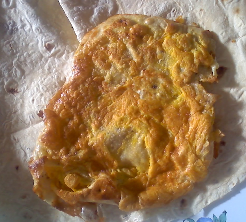 Dönderme.